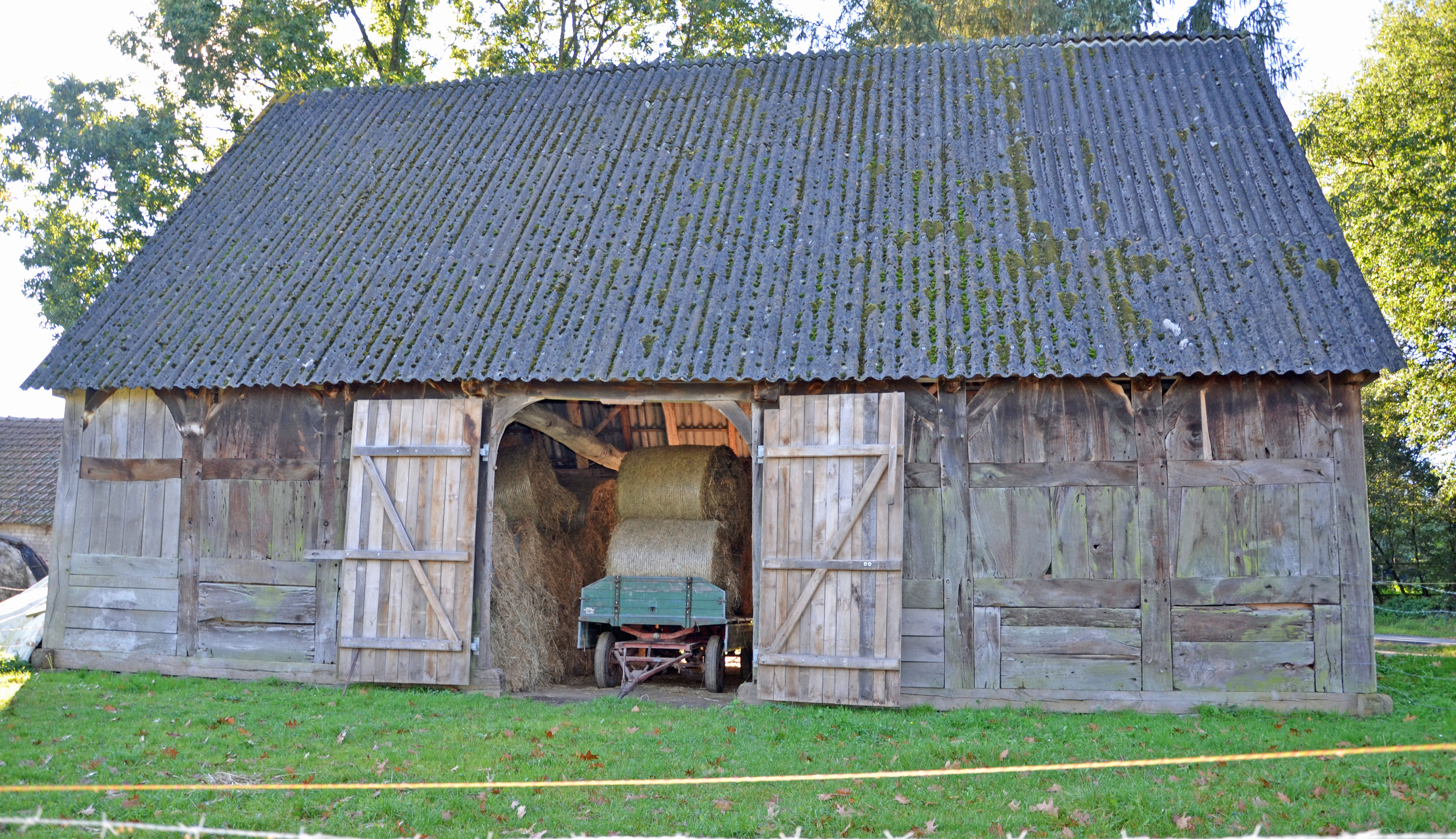 Cultural heritage Monument in Bassum Neubruchhausen barn